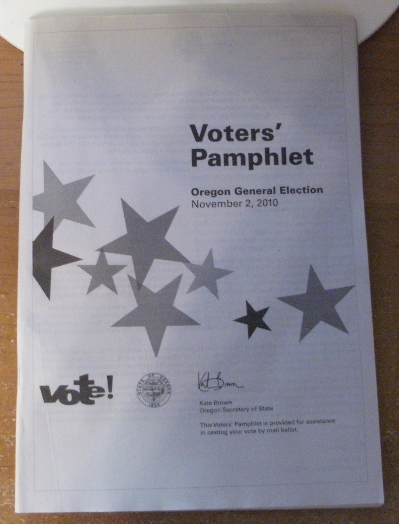 The Oregon Voters' Pamphlet for the November 2010 general election arrived in the mail today. There are 199 pages of information on the candidates and ballot measures. This is an important election year, maybe more important than we might think. Up on the ballot are Federal offices for Senator and Representatives; State offices for Governor, State legislature positions, State treasurer. Many city council positions are on the ballot for several cities. And maybe one of the most important races is for the presidency of Metro, our three county agency.